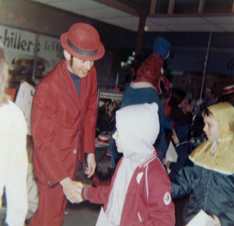 Seeing this photo brings back many great memories of watching "The B.J. & Dirty Dragon Show". It was the first show I can remember that would keep me engaged, in part due to the cliffhanger serial adventures of "The Lemon Joke Kid". Bill Jackson had a knack for communicating with kids.